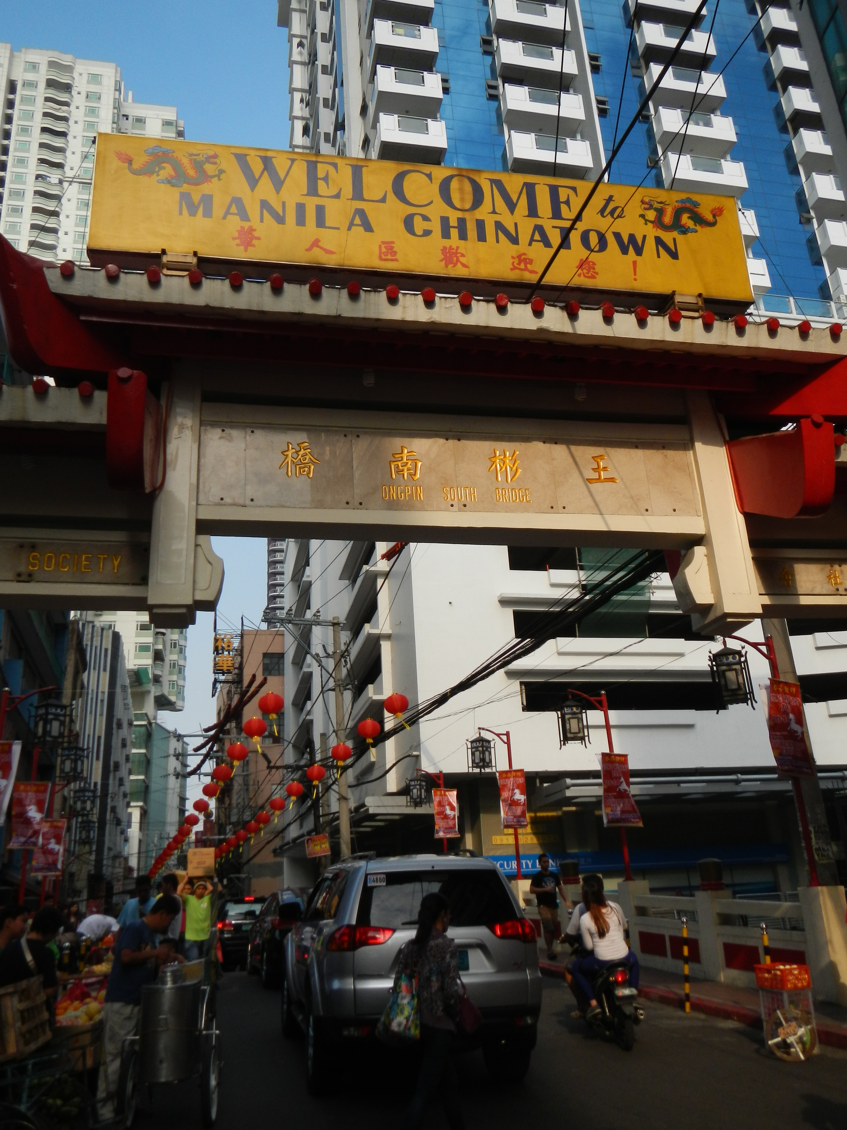 Upload Wizard photos of - (general description of the landmarks, angle by angle photography of the city, town, rivers, bridges and interesting points) -- the fruits, foods, and full of round circular things, in the Year of the Wooden Horse, Manila Chinatown, Chinese New Year 2014, Salazar st., Ongpin street, Binondo, Manila and Santa Cruz, Manila, President Grand Palace Restaurant at [1] Santa Cruz, Manila, List of Cultural Properties of the Philippines in Metro Manila[2] Welcome Arch, including Ongpin, Masangkay, Tomas Mapua Streets and 400-year-old original Chinatown in Binondo, Manila [Chinatowns in Asia] all parts of Manila Chinatown, including the historic Filipino-Chinese Bridge of Friendship refurbished by Mayor Joseph Estrada on September 11, 2013, Barangay 289, Zone 27 District III [3] Ongpin Street Coordinates: 14°36'3"N 120°58'33"E Chinese-Filipino Business Club, Binondo, Manila - The Oldest Chinatown in the World - [4] Chinese Filipino[5] China–Philippines relations [6] Chinatowns in Asia [7] Chinese New Year [8] Dragon dance[9] Lion dance[10] Chinese dragon[11].